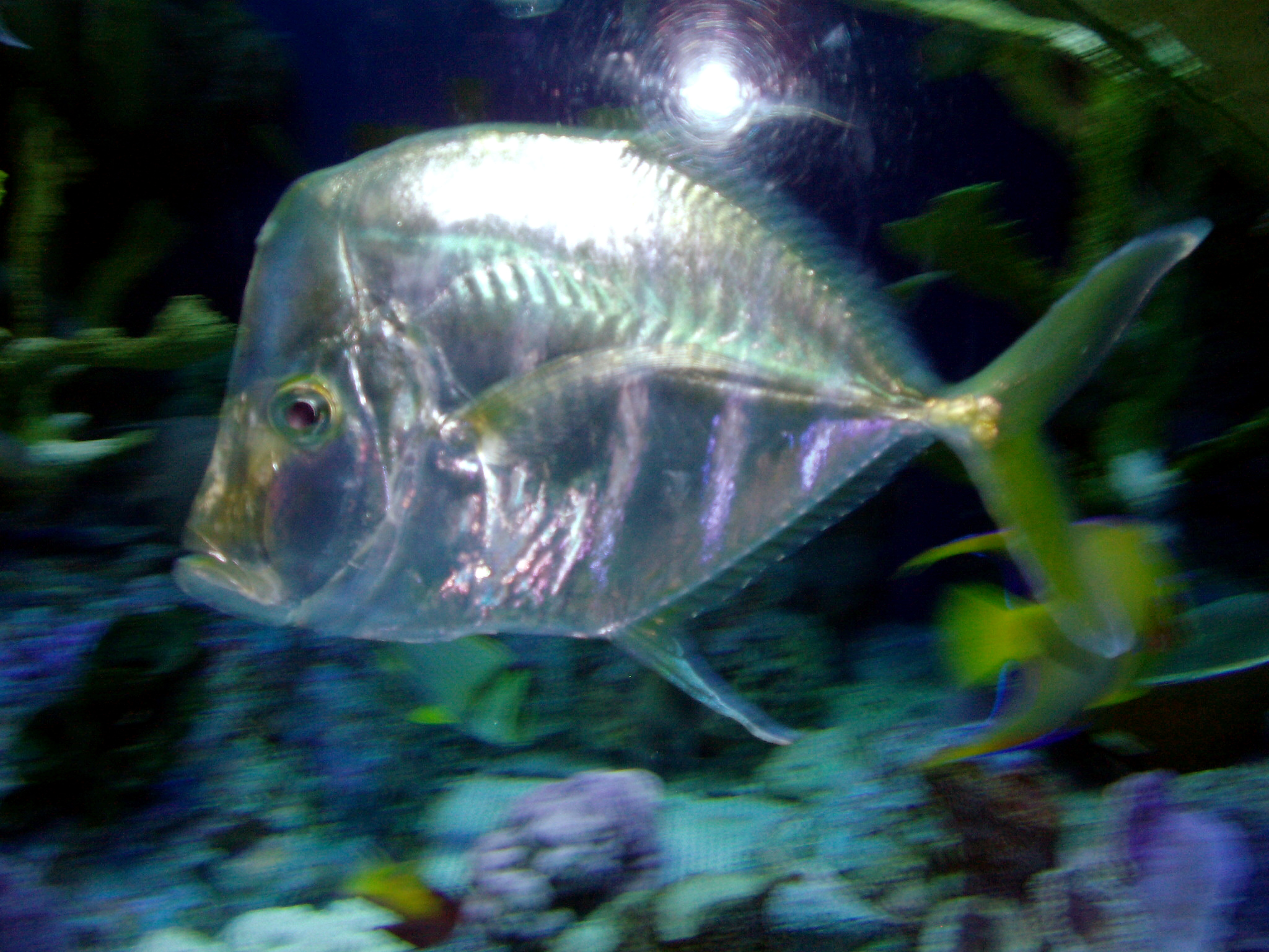 Hairfin Lookdown (Selene brevoorti) in the Ikebukuro Sunshine 60 Aquarium.